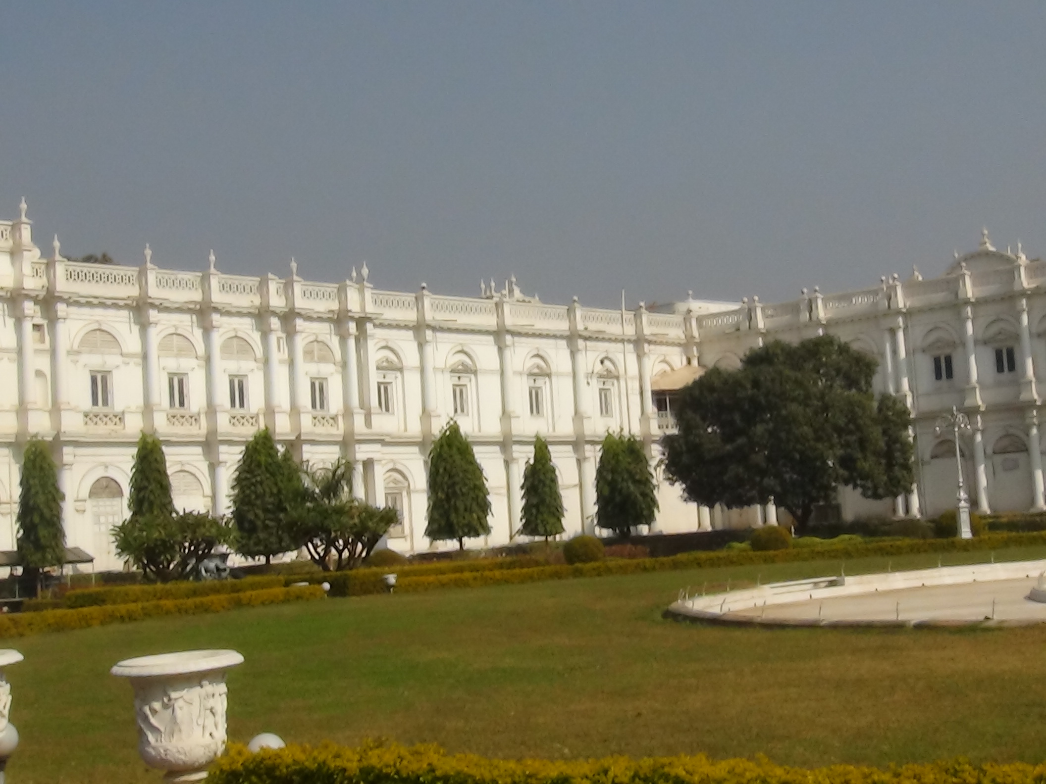 Jai vilas palace of Gwalior